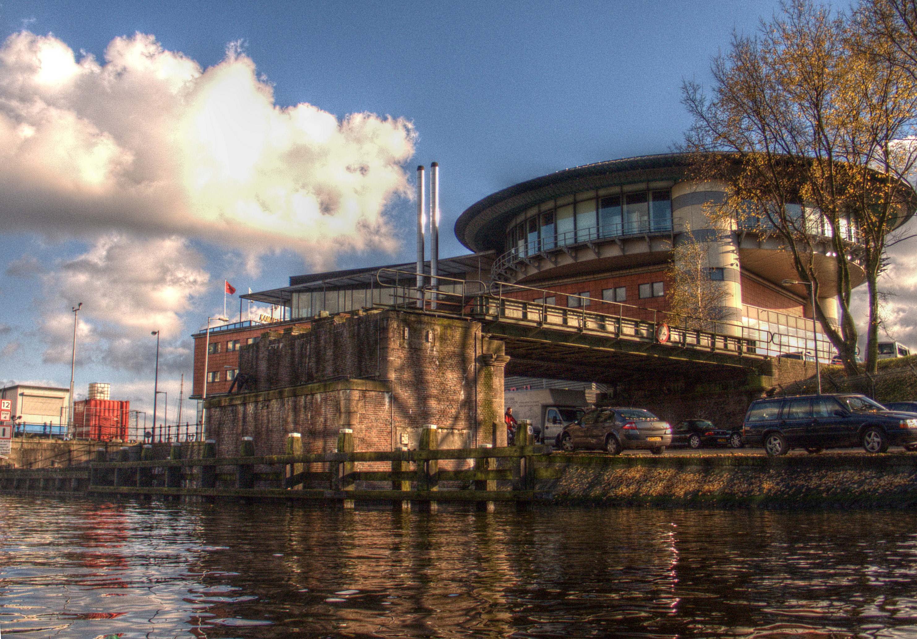 A bridgehead and remnants of former railway bridge 19S over the Westertoegang in Amsterdam. In thr background the VL/TC building that houses railway traffic control